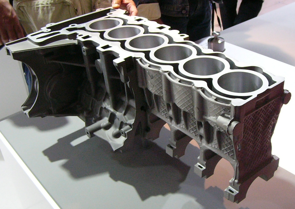 The cylinder block for BMW N52 (6-cylinder engine) series. It's made by Al casting (Cylinder, Water-Jacket and Crankshaft journal bearing part) and Mg casting (Outer surface).